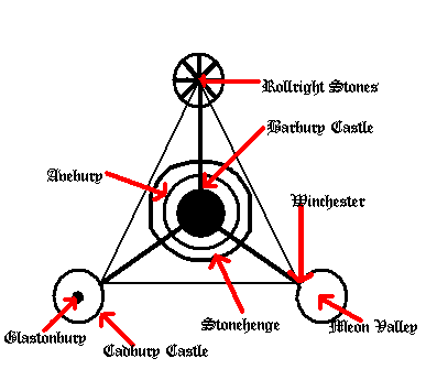 Map of the Barbury Castle's Crop Circle. This image has been made in Paint.